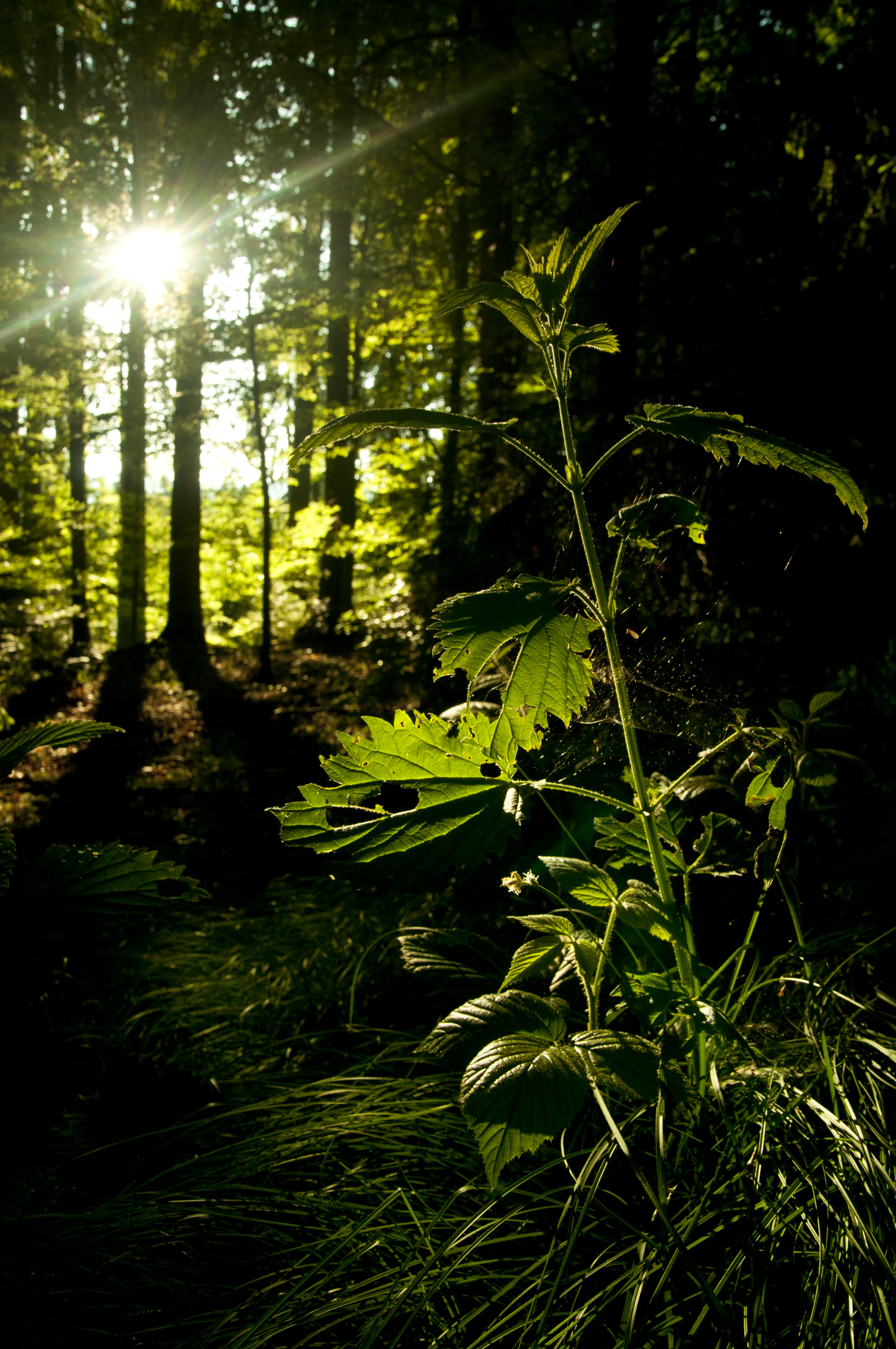 Stinging Nettle (Urtica) in the back light of sunset, Bavarian forest